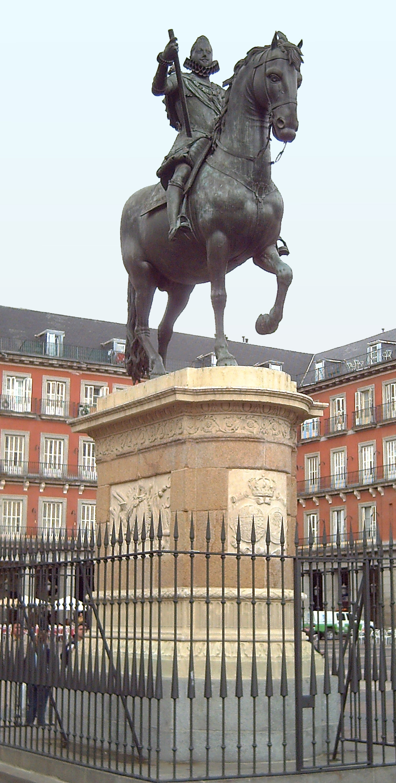 Monument to Philip III of Spain (1578–1621) at the Plaza Mayor (square) of Madrid. Inaugurated in 1848. Bronze equestrian statue was started by Giambologna (1529–1608) and finished in 1616 by Pietro Tacca (1577–1640).